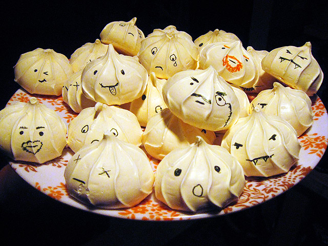 Rebecca's Jack-o'-lantern meringues.